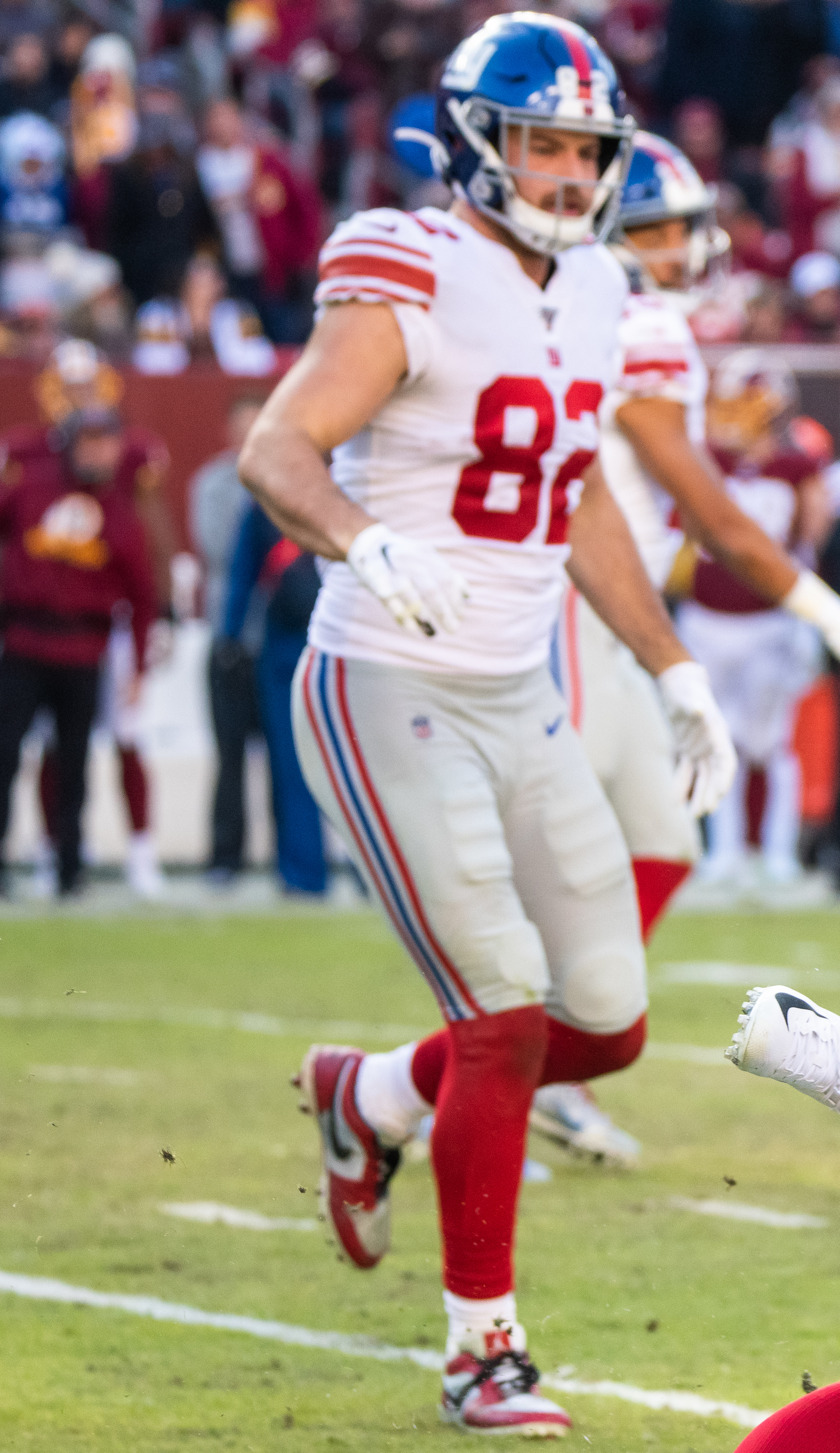 Kaden Smith of the Giants